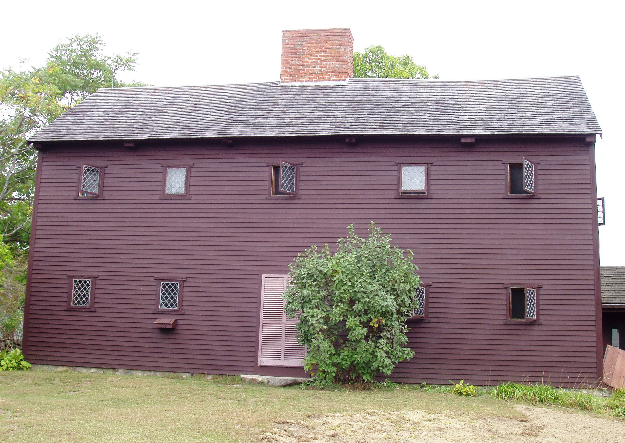 Dole-Little House - Newbury, Massachusetts. Front view. Photograph taken by me, September 2005.